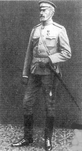 Grand Duke Nicholas Nikolaevich of Russia (1856–1929)